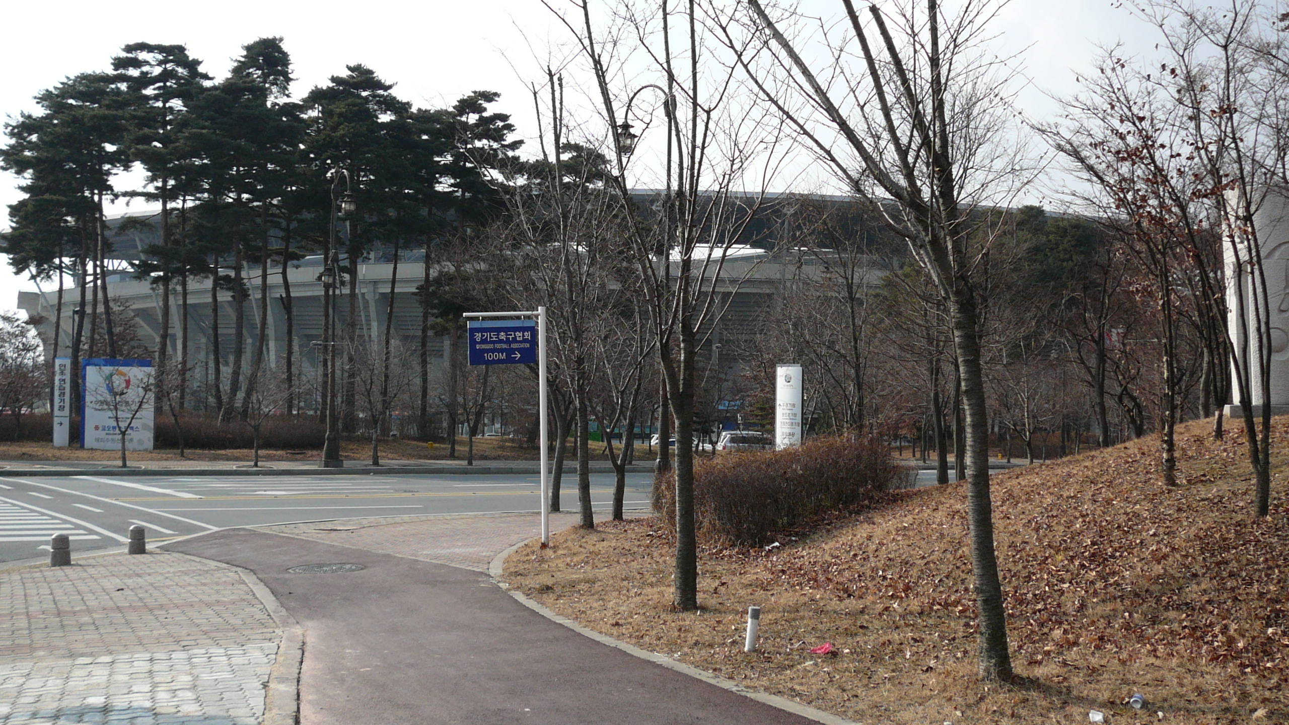 Forest outside of the Big Bird, Gyeonggido Football Association